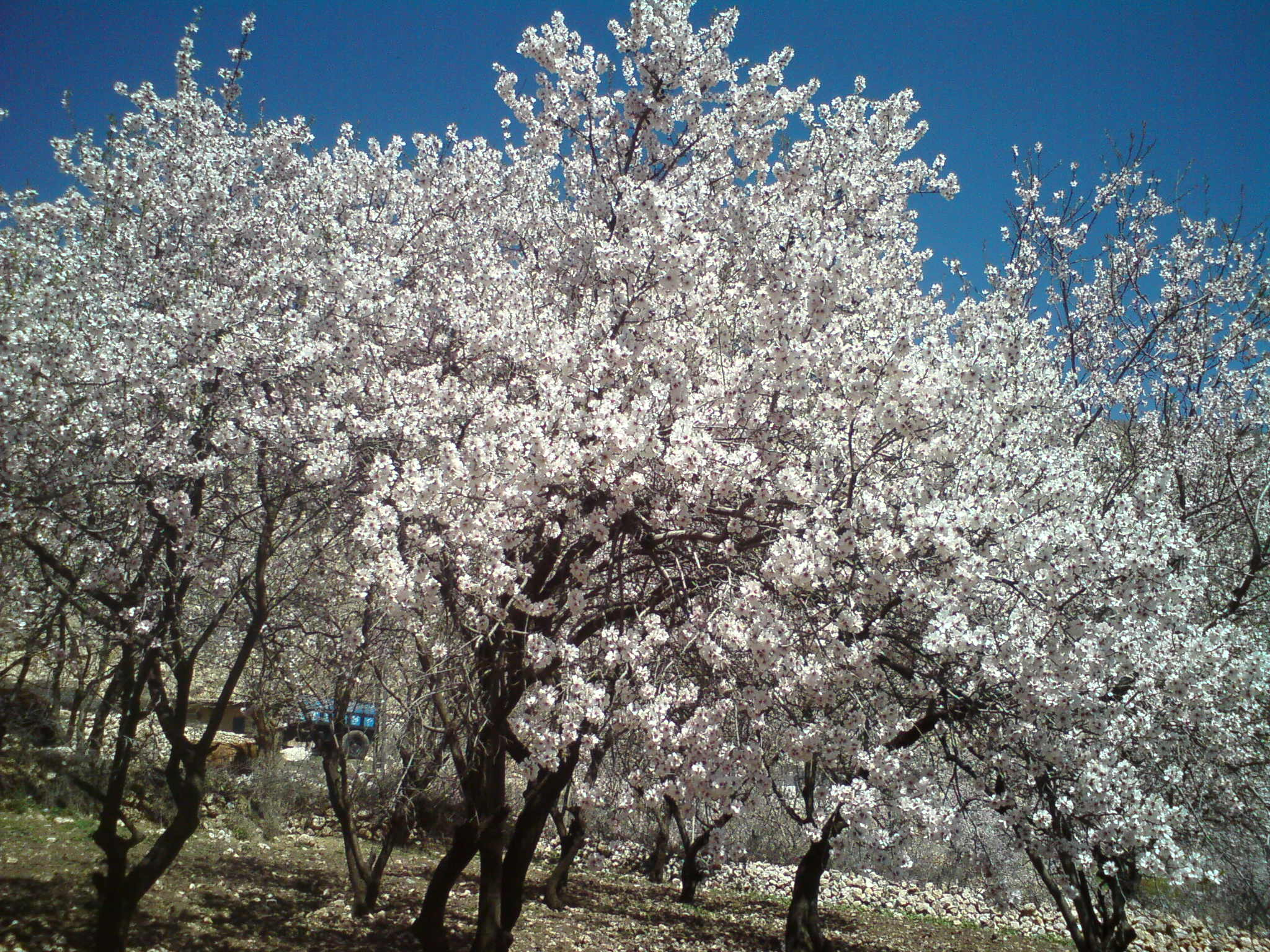 Almond flowers (Aydınpınar, Kahta)Kurdî: Darên behîvê li Şume (Kolîk).